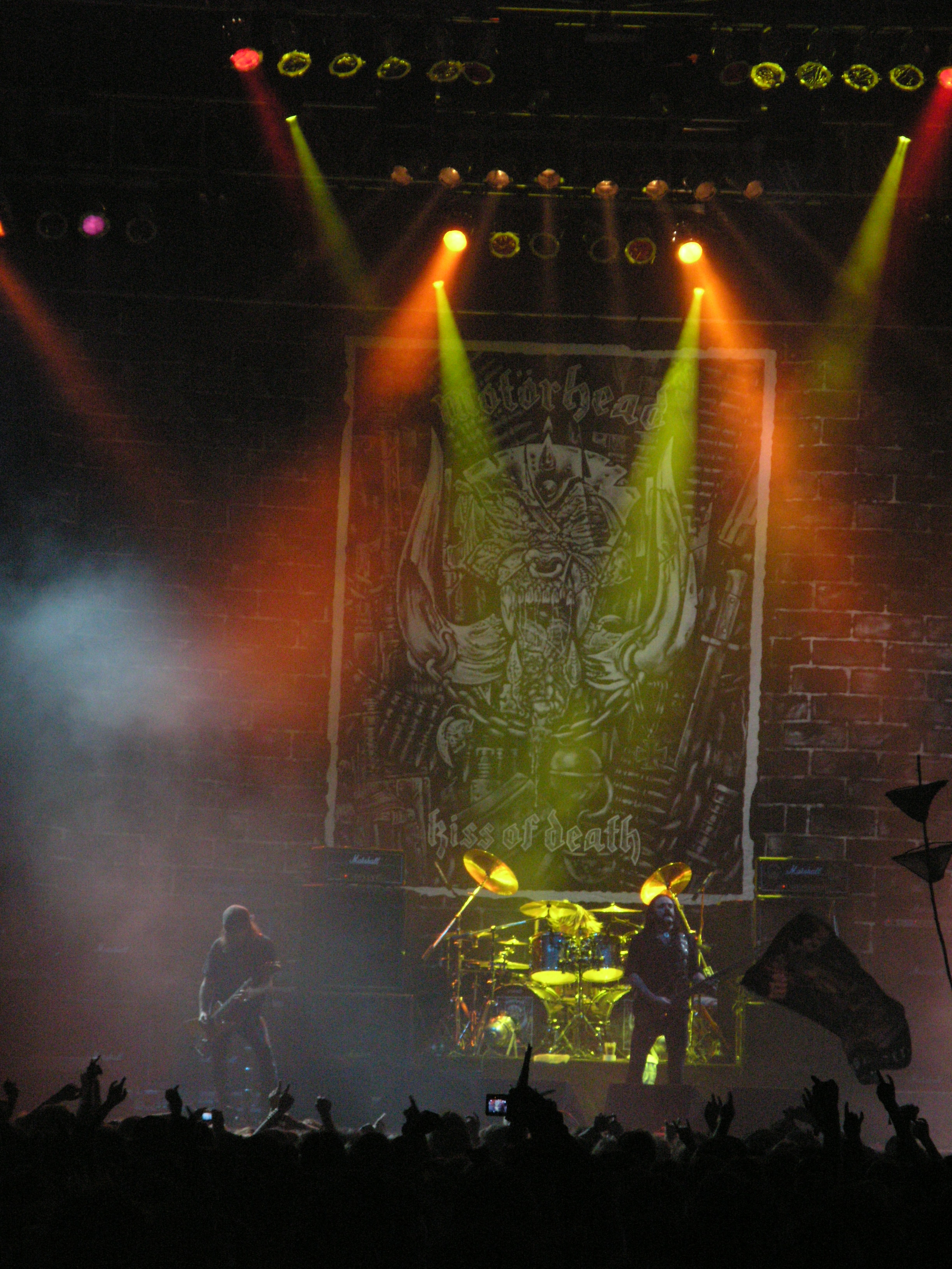 Music band Motörhead during Masters of Rock 2007 festival